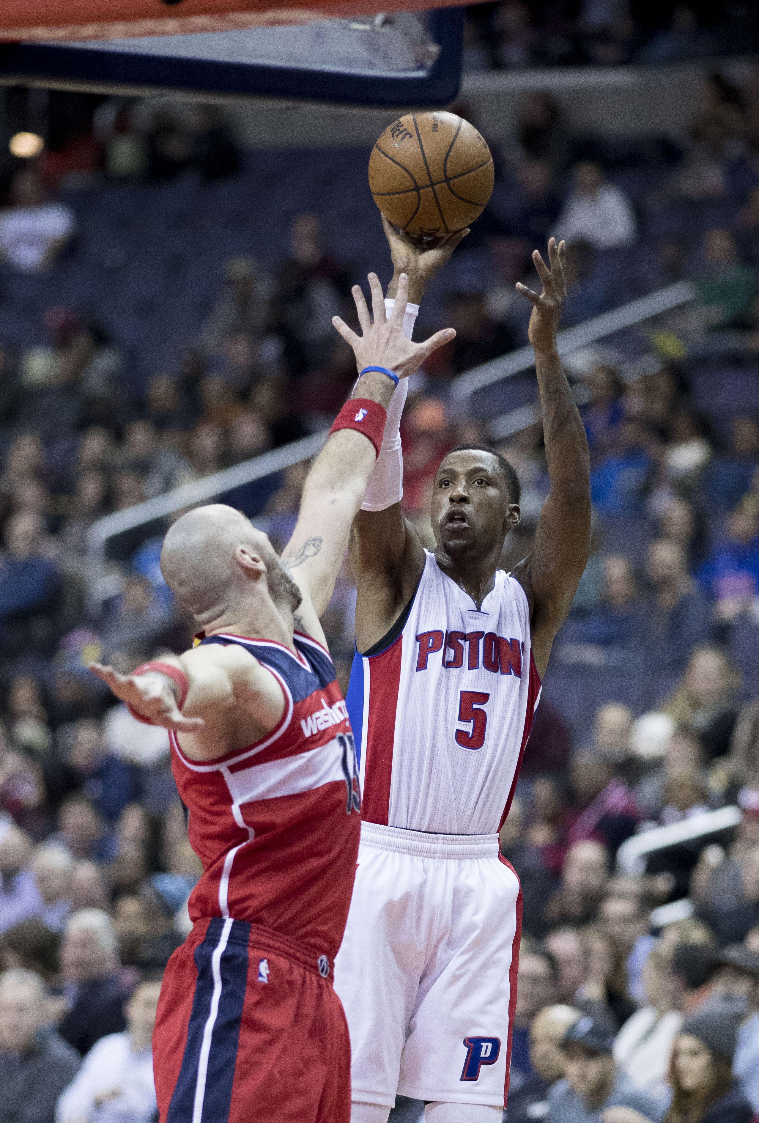 Pistons at Wizards 12/16/16